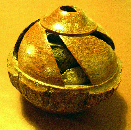 Carved Brazil nut seed case brought from South America by a British sailor during the 1930s